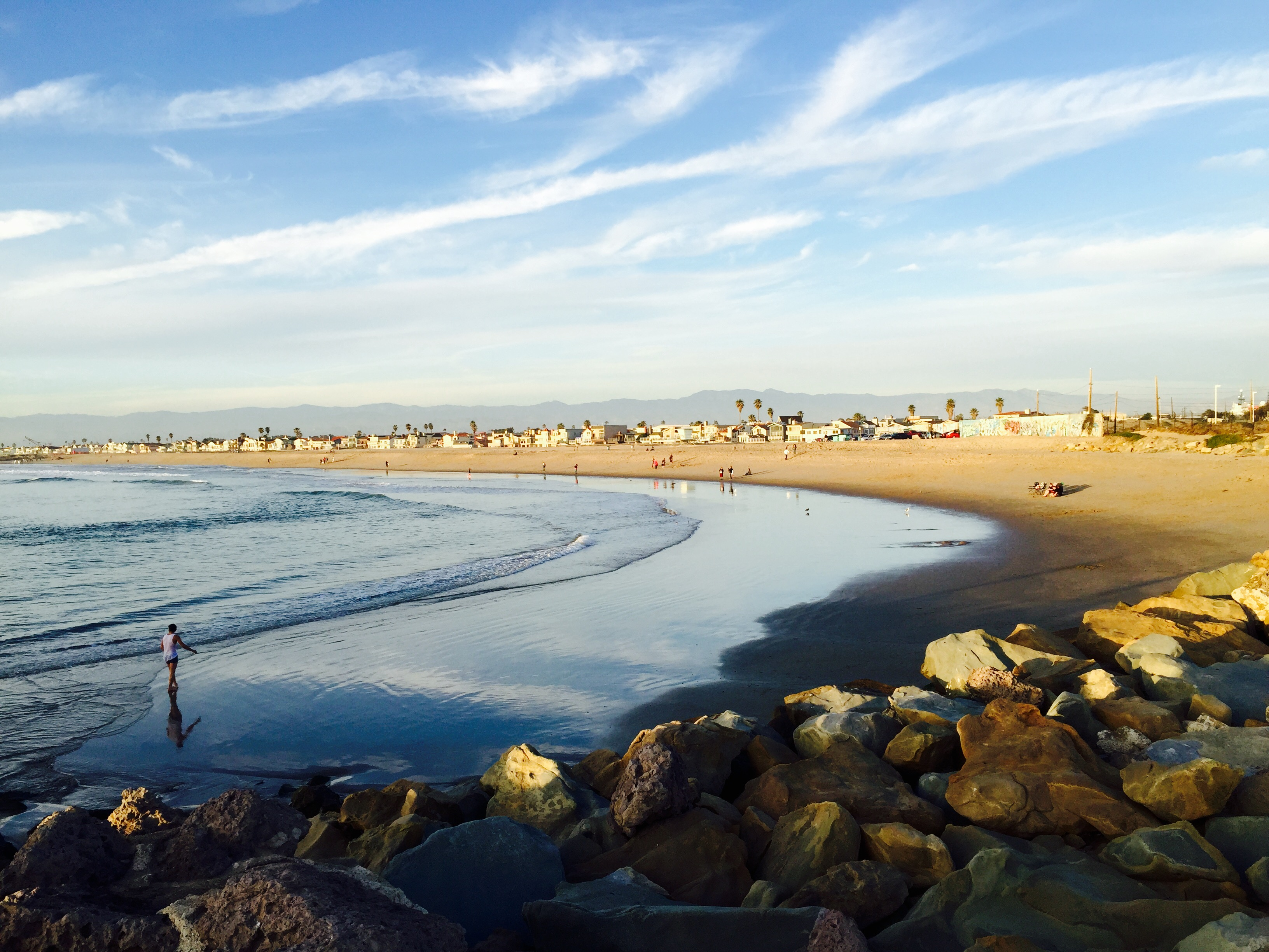 Photo of Silver Strand Beach, taken in January 2015.